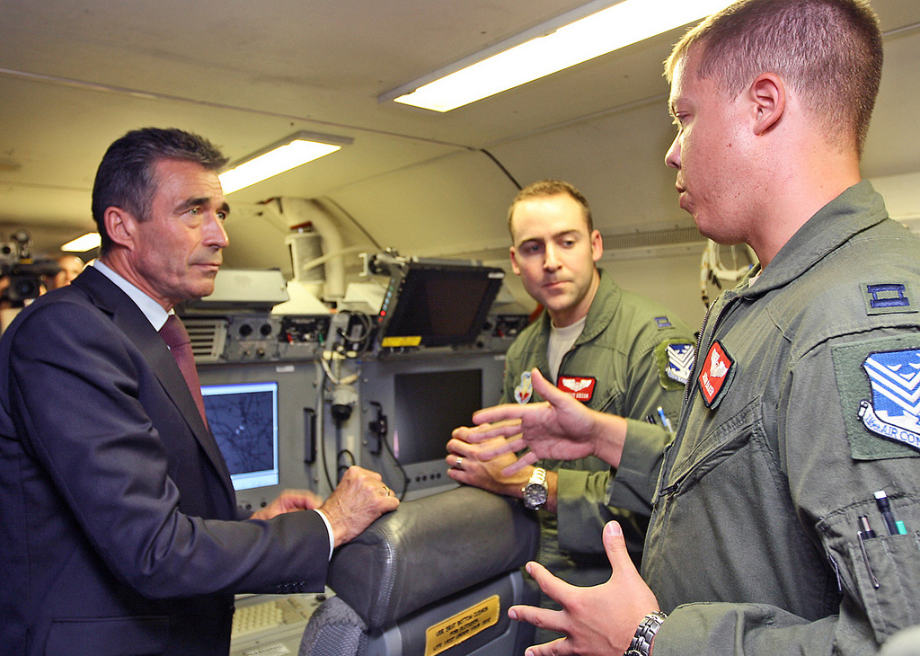 NATO Secretary General Rasmussen talks with Georgia National Guard members during a 2011 visit during which he praised the state's service with NATO and participation in the National Guard State Partnership Program.